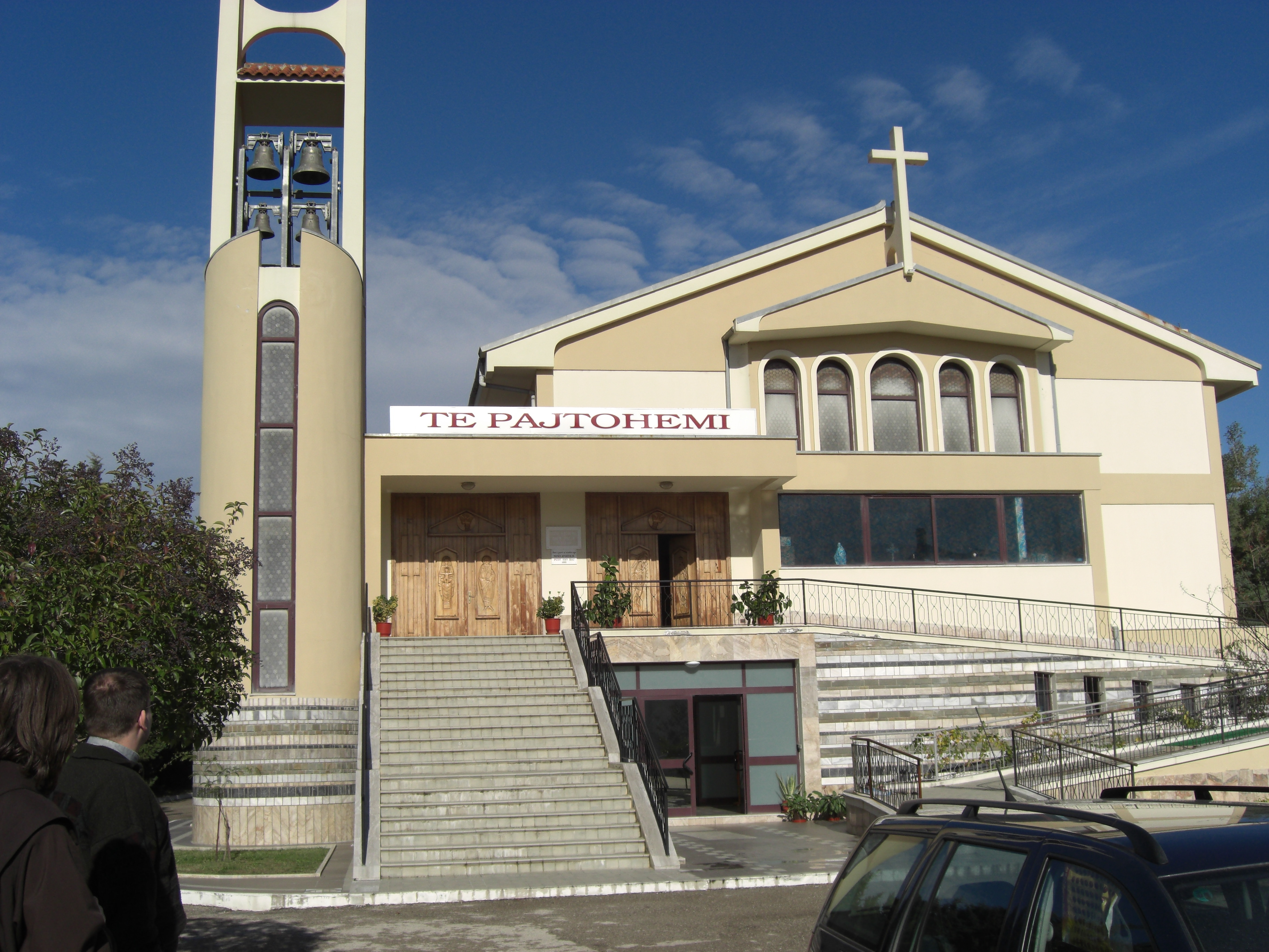 Catolic church in Elbasan (Albania)